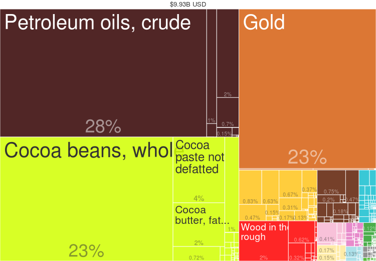 2014 Ghana Products Export Treemap